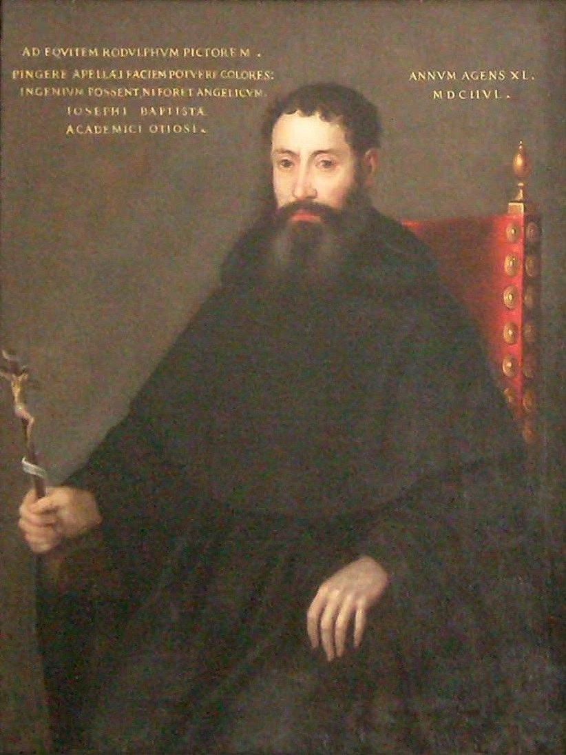 Angelico Aprosio, Augustinian, scholar, collector of books